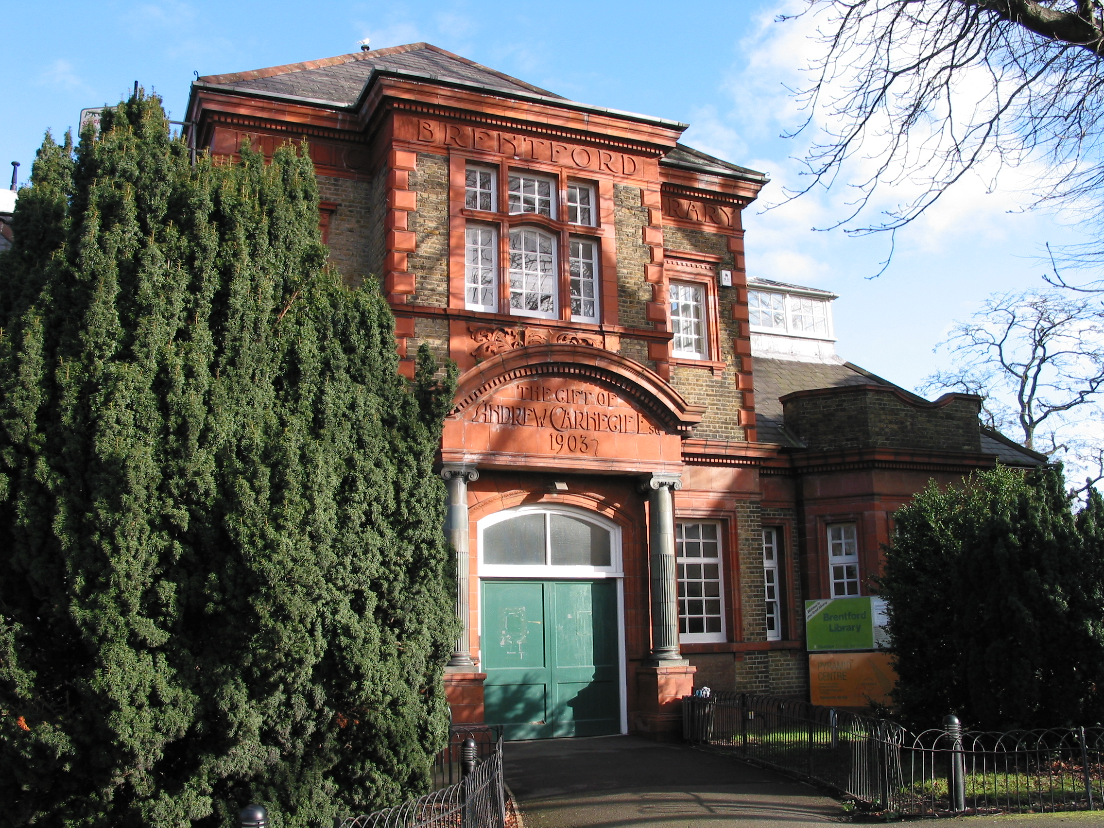 Brentford Carnegie Library, UK photo by myself Date and Time 2005:01:13 11:54 Exposure Time 1/250 sec. F Number f/4.0 Copyright © 2005 WLD